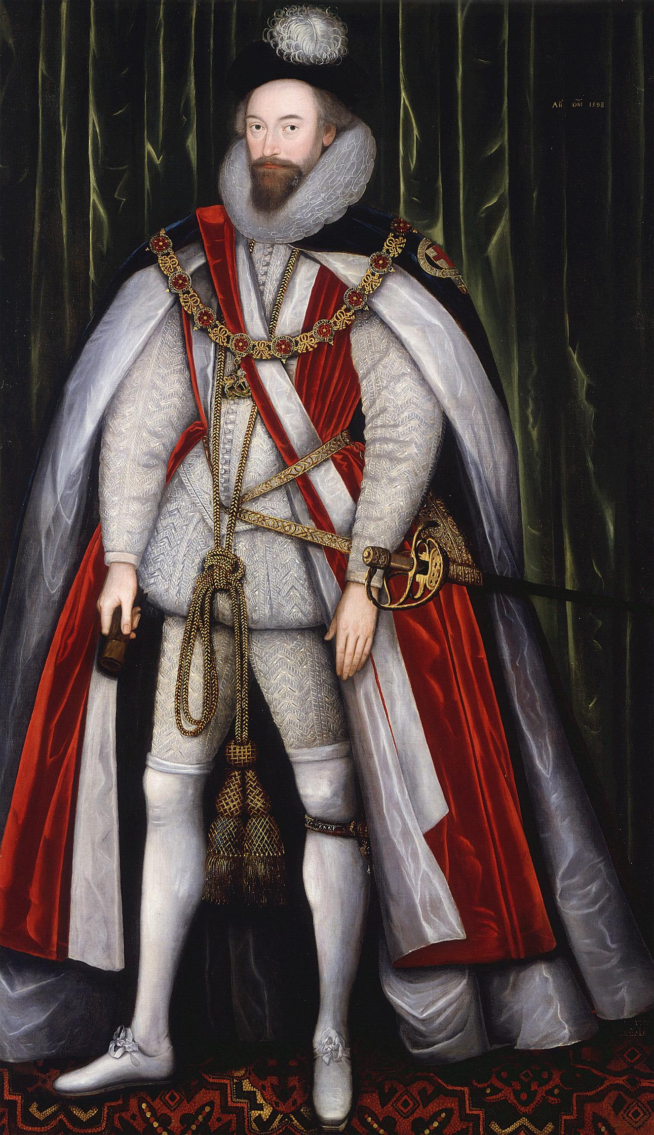 Portrait of Thomas Howard, later 1st Earl of Suffolk in Garter Robes.